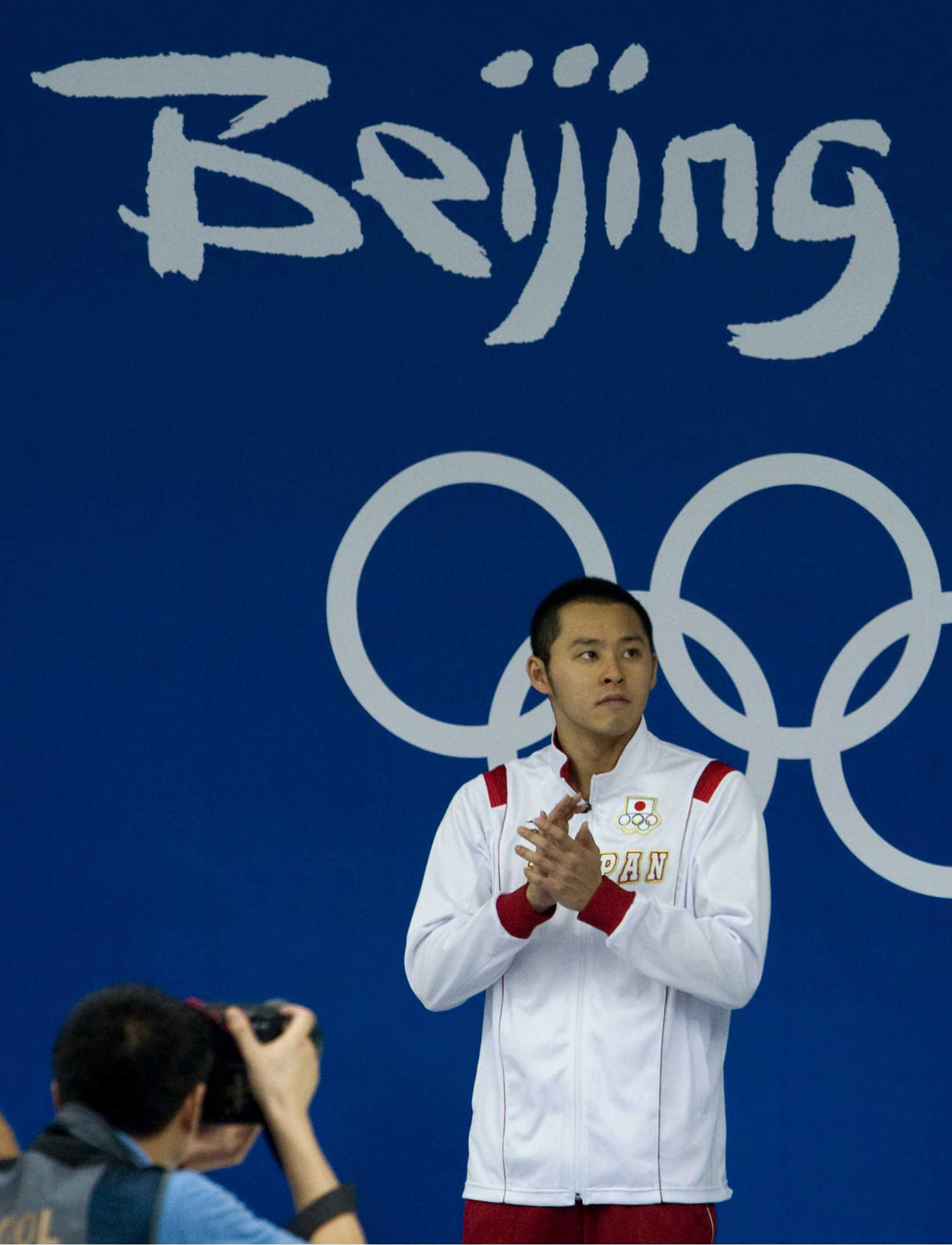 Japanese swimmer Kosuke Kitajima winner of the 200m breaststoke, on the podium at the Watercube, Beijing, August 14th 2008.